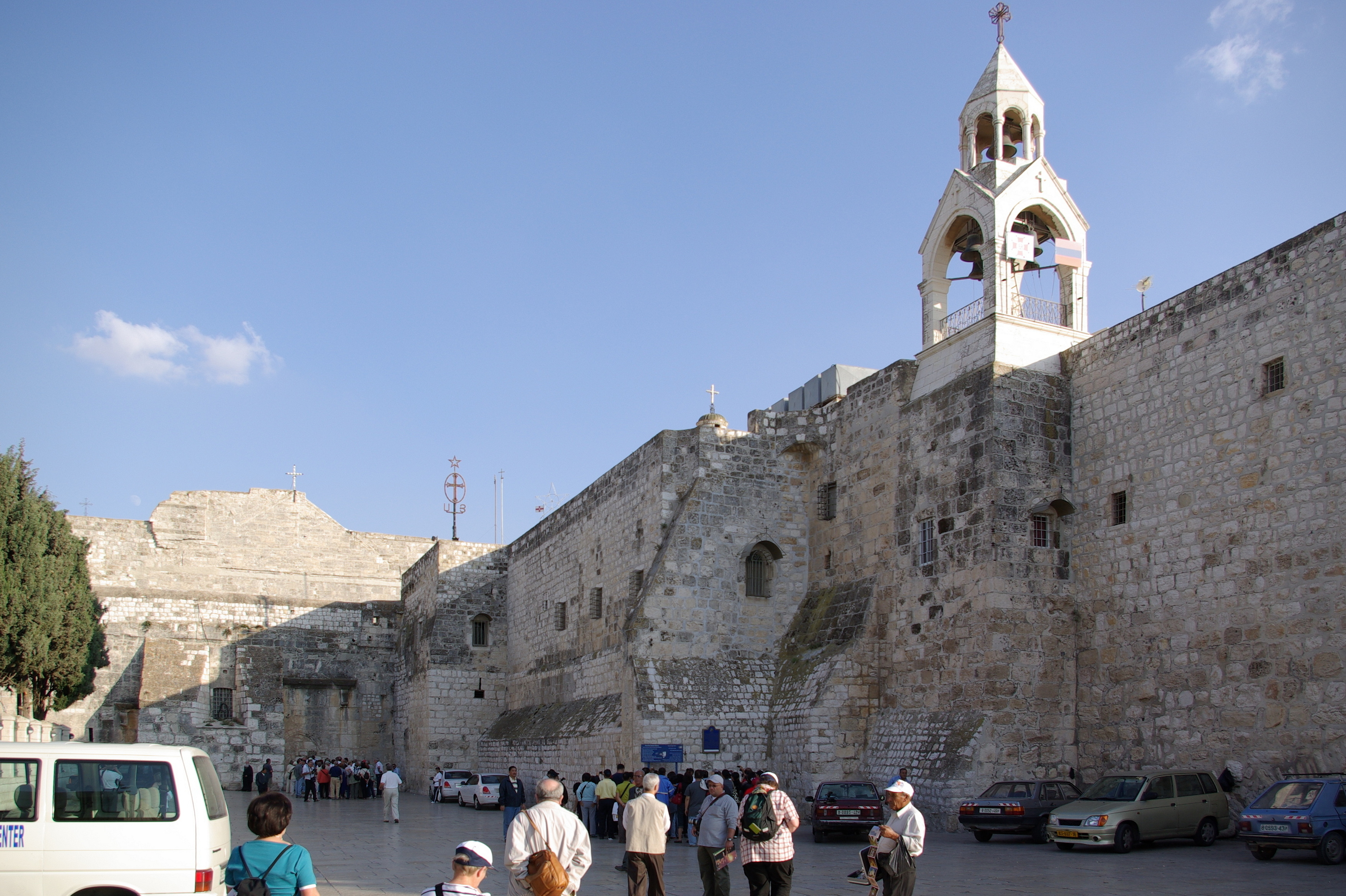 Bethlehem, Church of the nativity